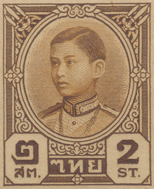 A stamp used in Rama VIII's reign